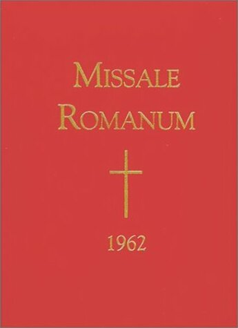 Missale Romanum, 1962 edition.